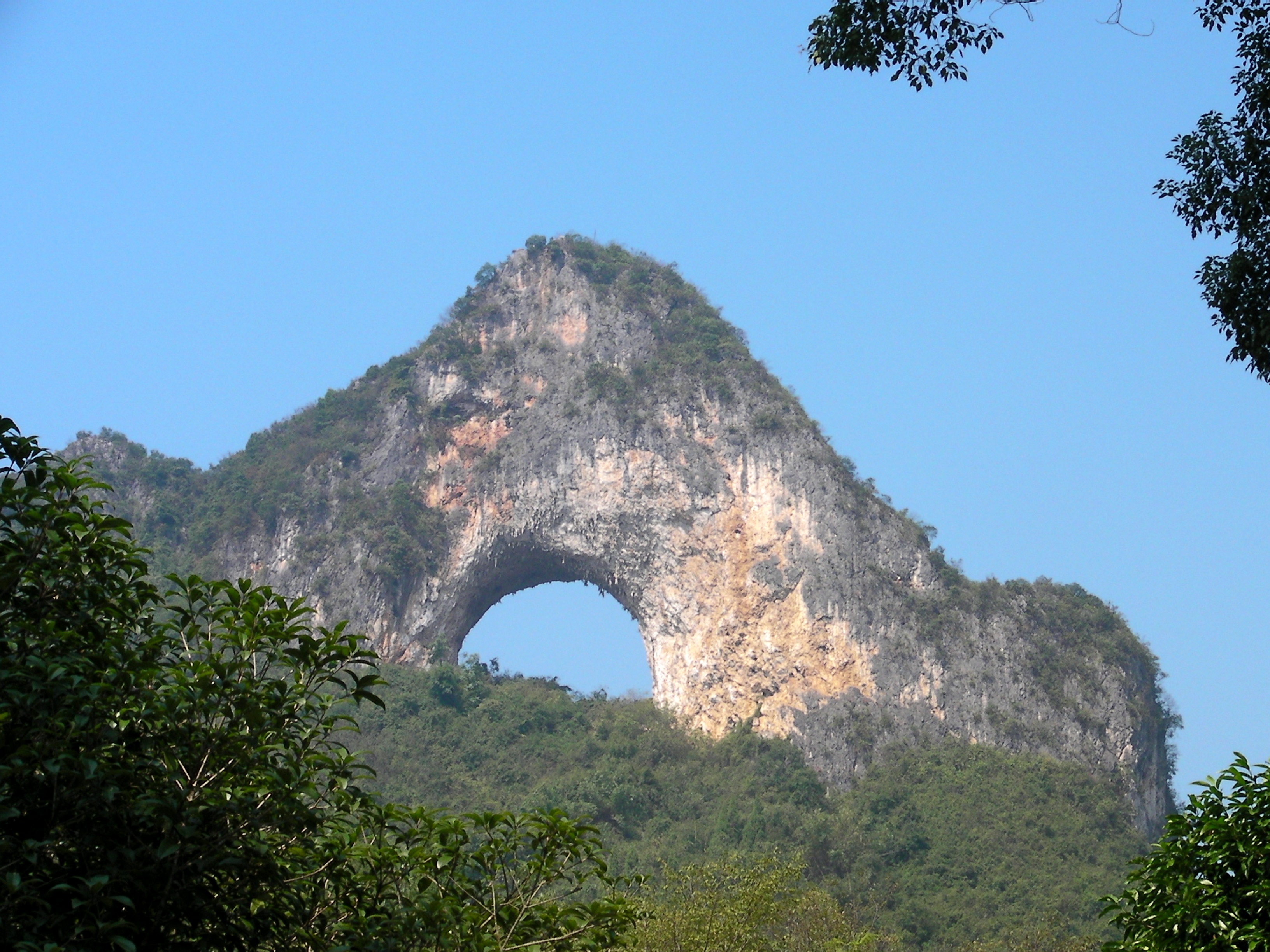 Moon Hill - Yangshuo, China